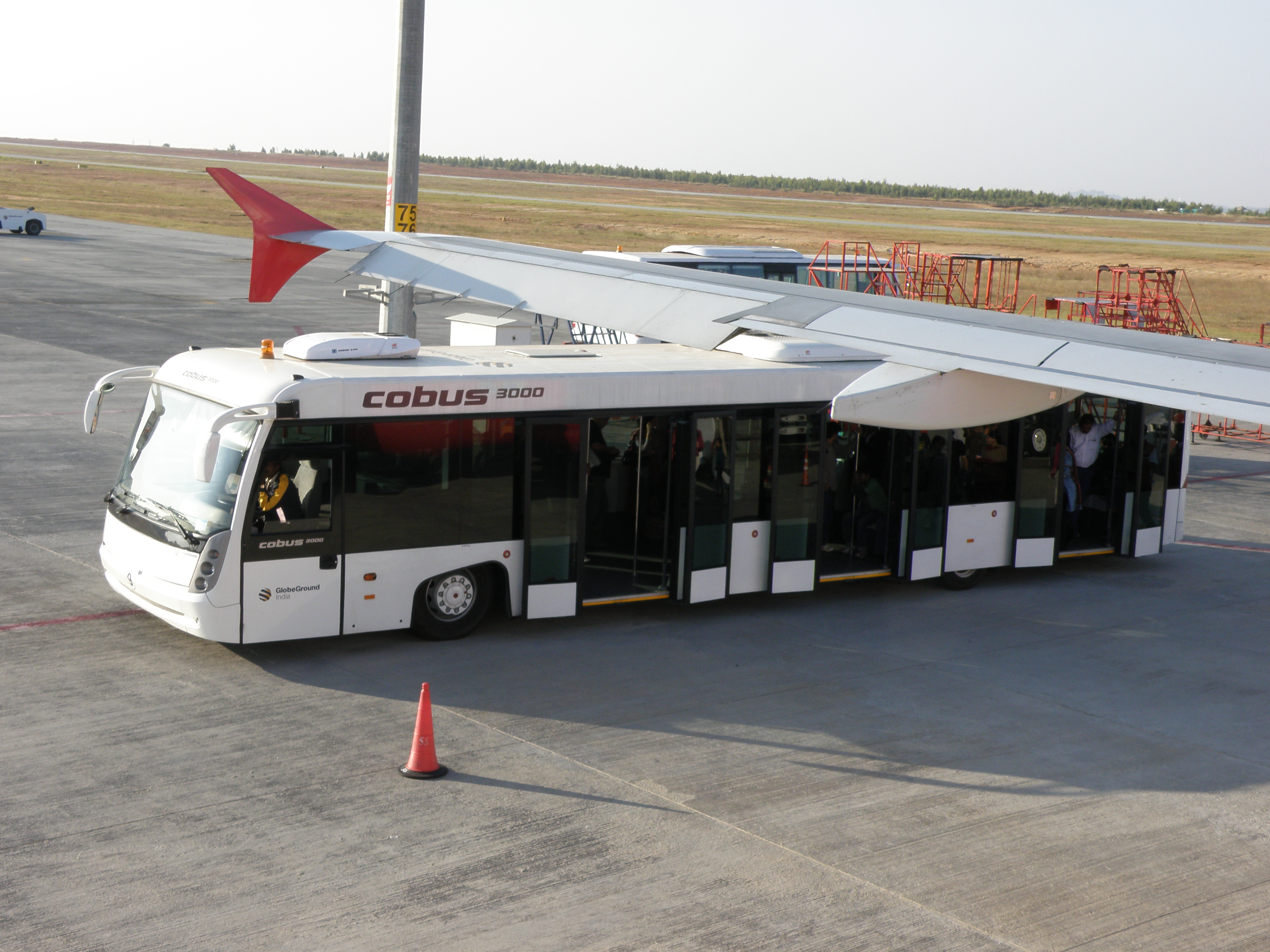 Cobus 3000 at Bengaluru International Airport